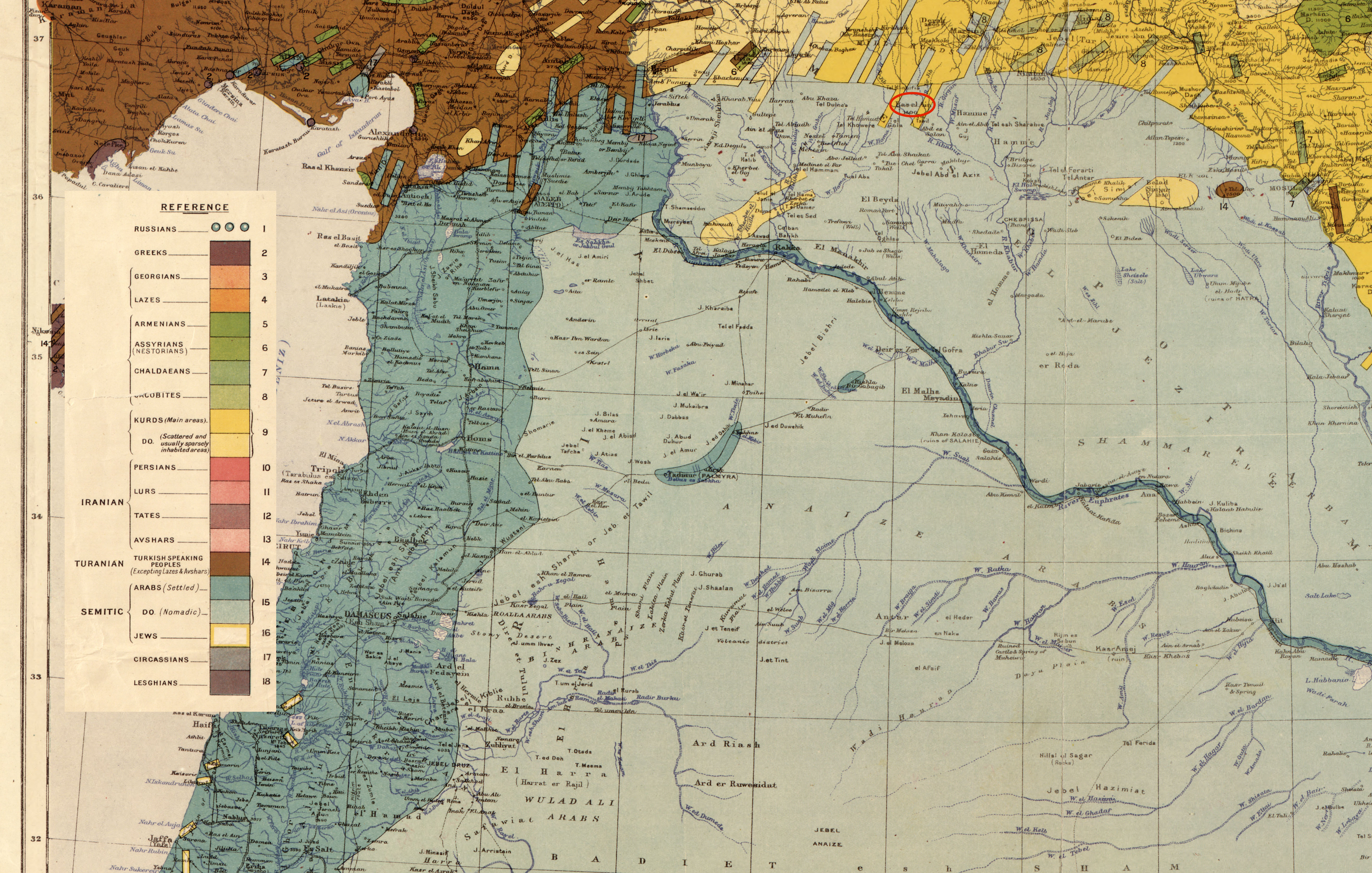 Maunsell's ethnographical map of northern Syria. Location of Ras el-Ayn (or Ras al-Ayn) marked with red circle (top center)